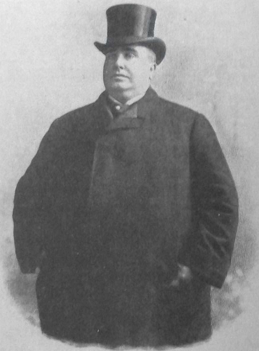 A photo of Paul Dresser that appears on the back side of the cover sheet of the sheet music for On the Banks of the Wabash, Far Way.